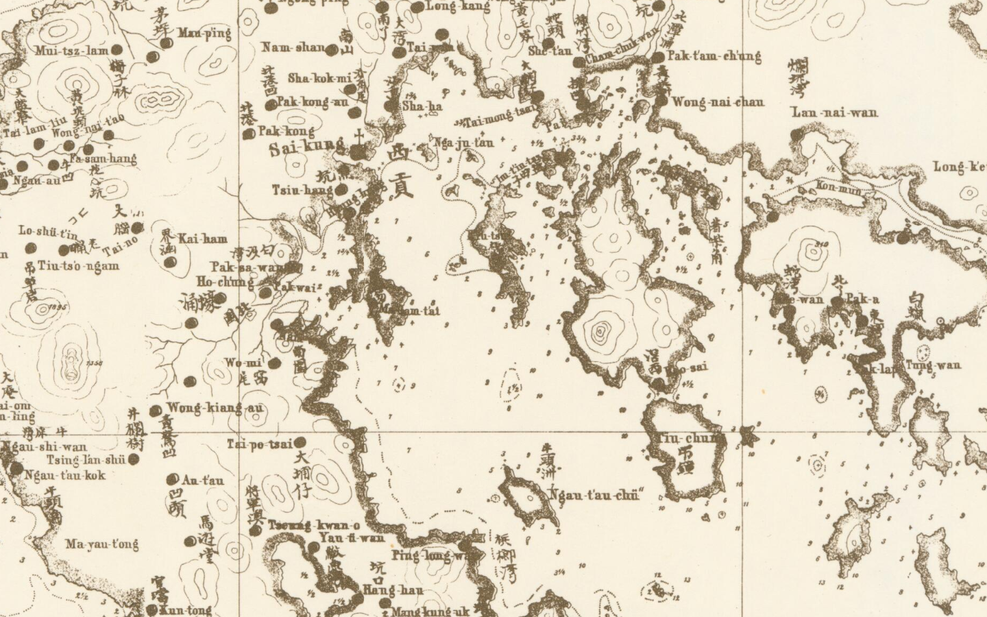 Map of Xin'an County made by Volonteri. Section enlarged to shown the modern day Sai Kung Town and the Port Shelter of Hong Kong only.